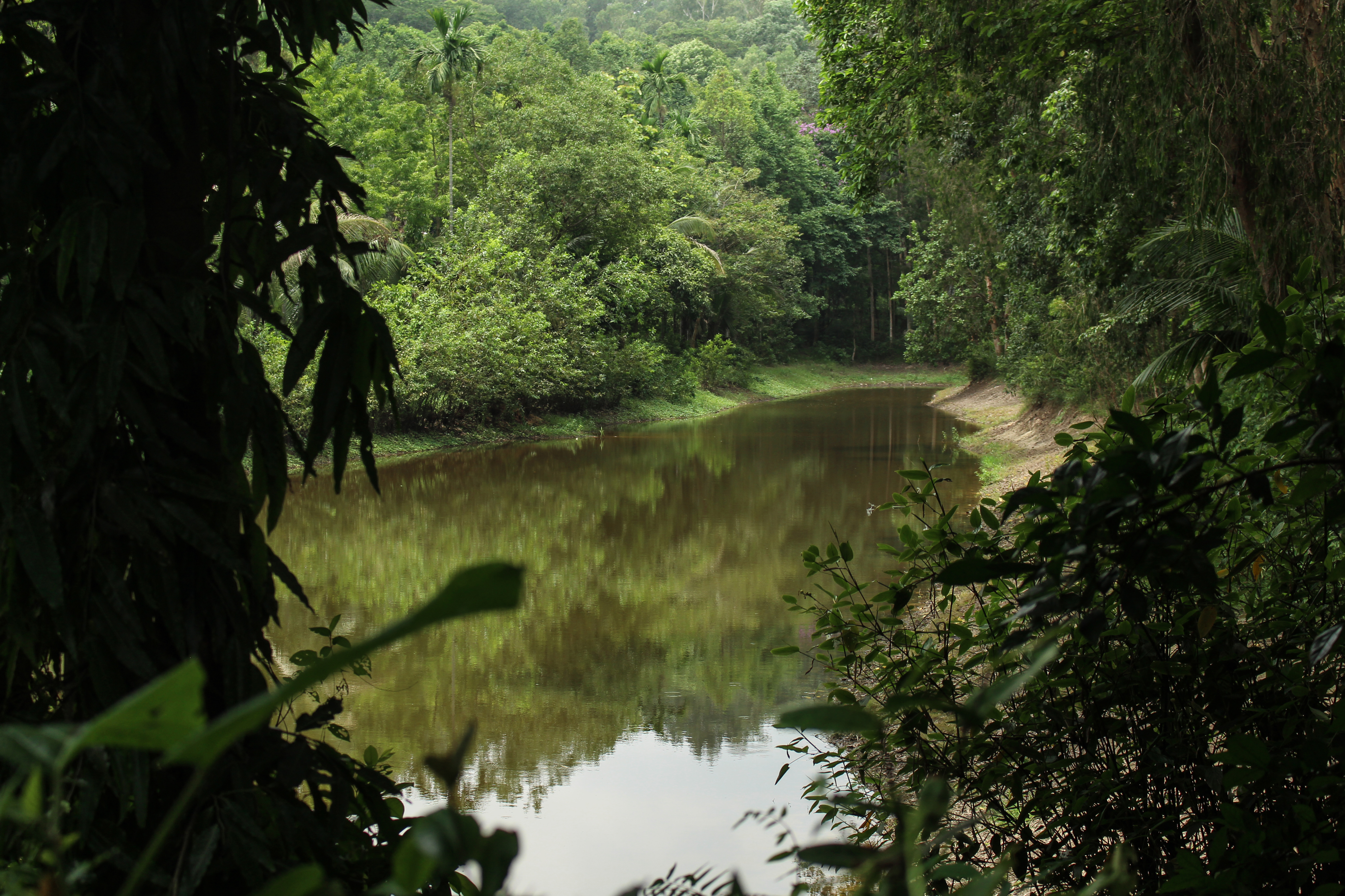 Pond in Institute of Forestry and Environmental Sciences, University of Chittagong